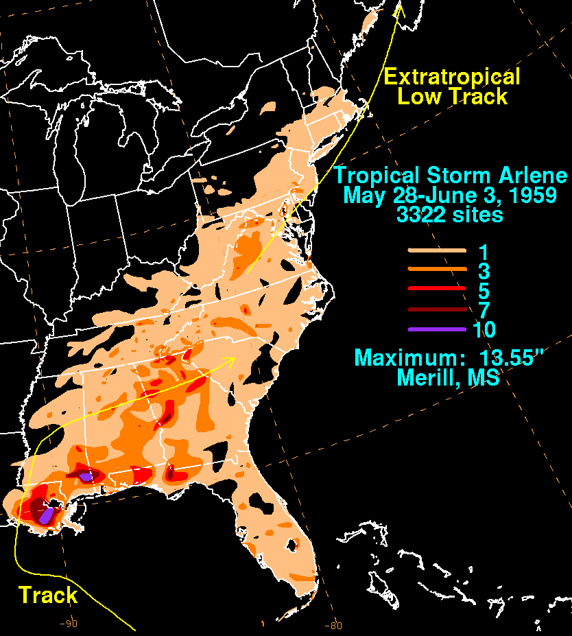 Rainfall produced by Tropical Storm Arlene during May and June 1959.